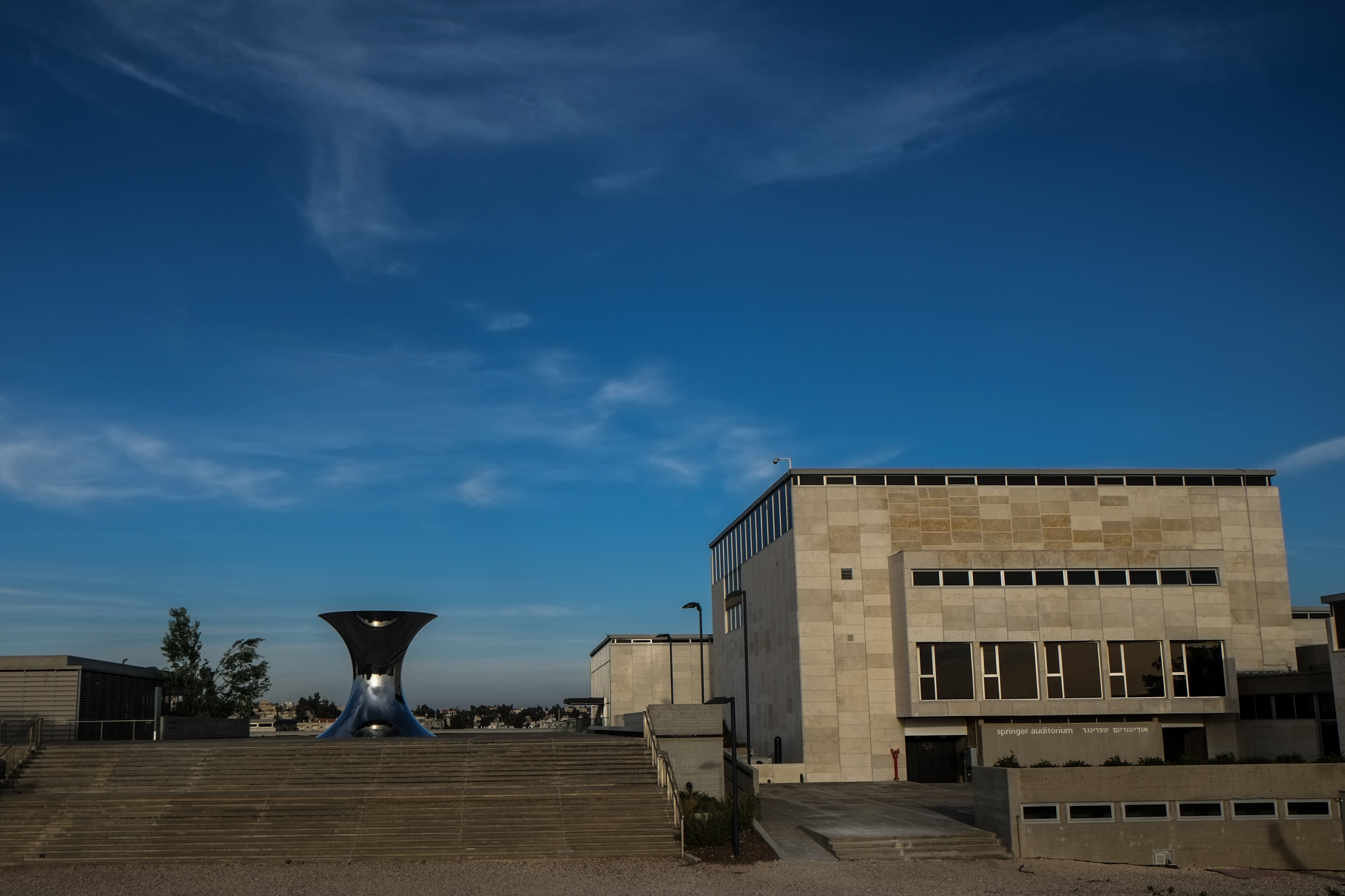 Israel museum exterior